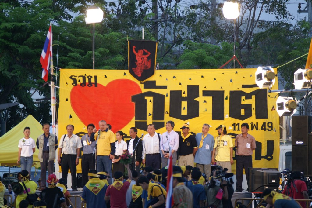 The announcement of People's Alliance for Democracy at the Royal Plaza on February 11, 2006.